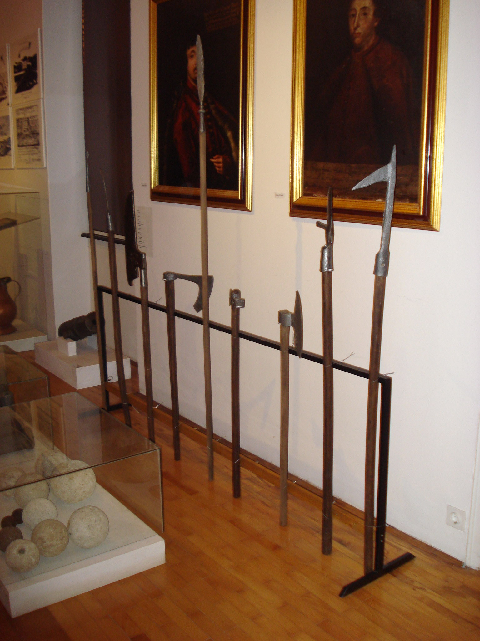 Night of museums 2014. in Medjimurje County Museum in Čakovec (Croatia) - medieval weapons collectionHrvatski: Noć muzeja 2014. u Muzeju Međimurja Čakovec (Hrvatska) - zbirka starog hladnog oružja